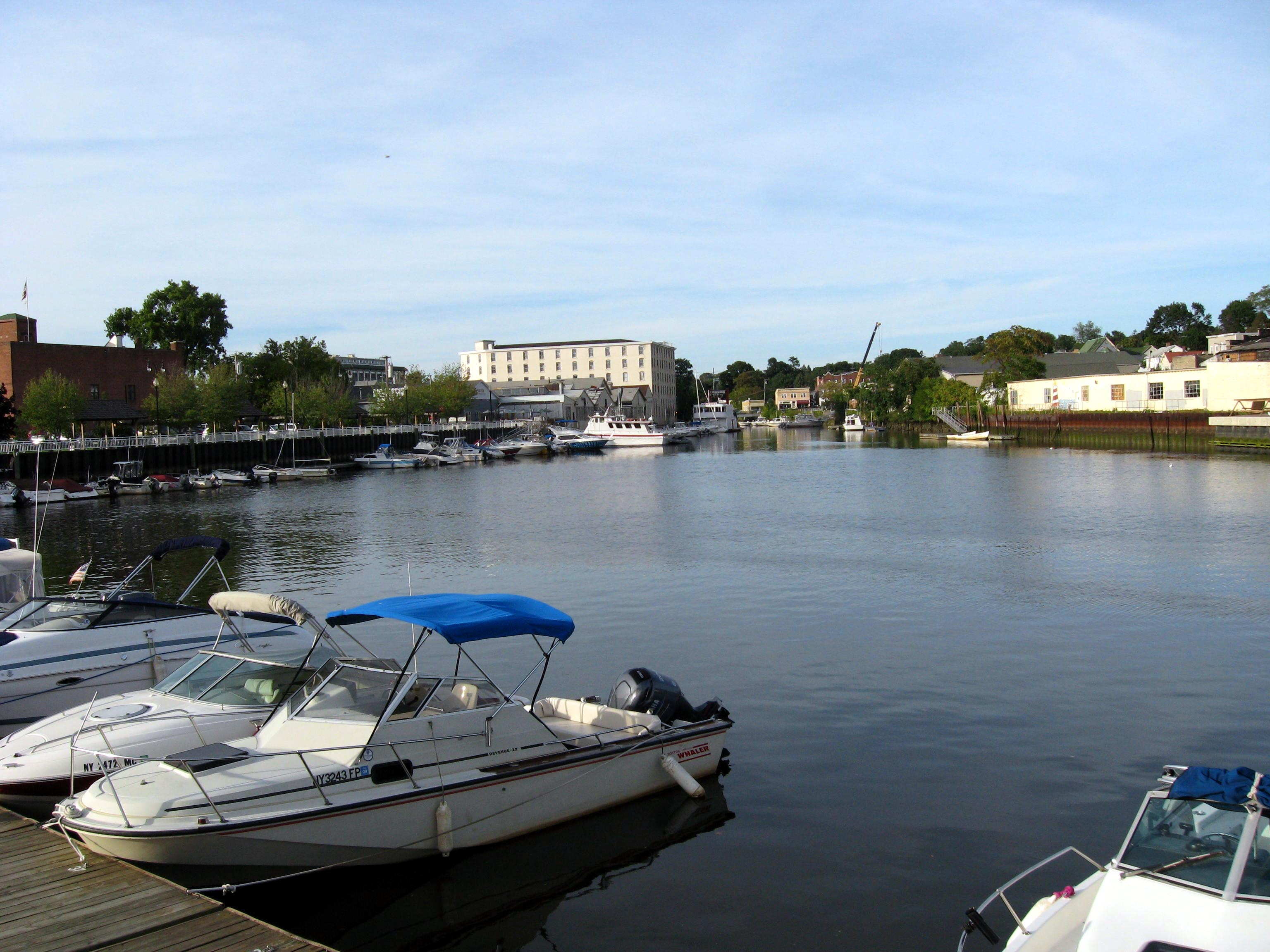 Looking north up the Bryam River at Port Chester, New York left, Mill Bridge center, and Bryam, Connecticut right on a sunny late afternoon.